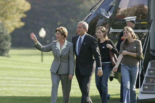 President George W. Bush and Laura Bush return to the White House with their daughters Barbara, left, and Jenna, right, Tuesday, Nov. 2, 2004